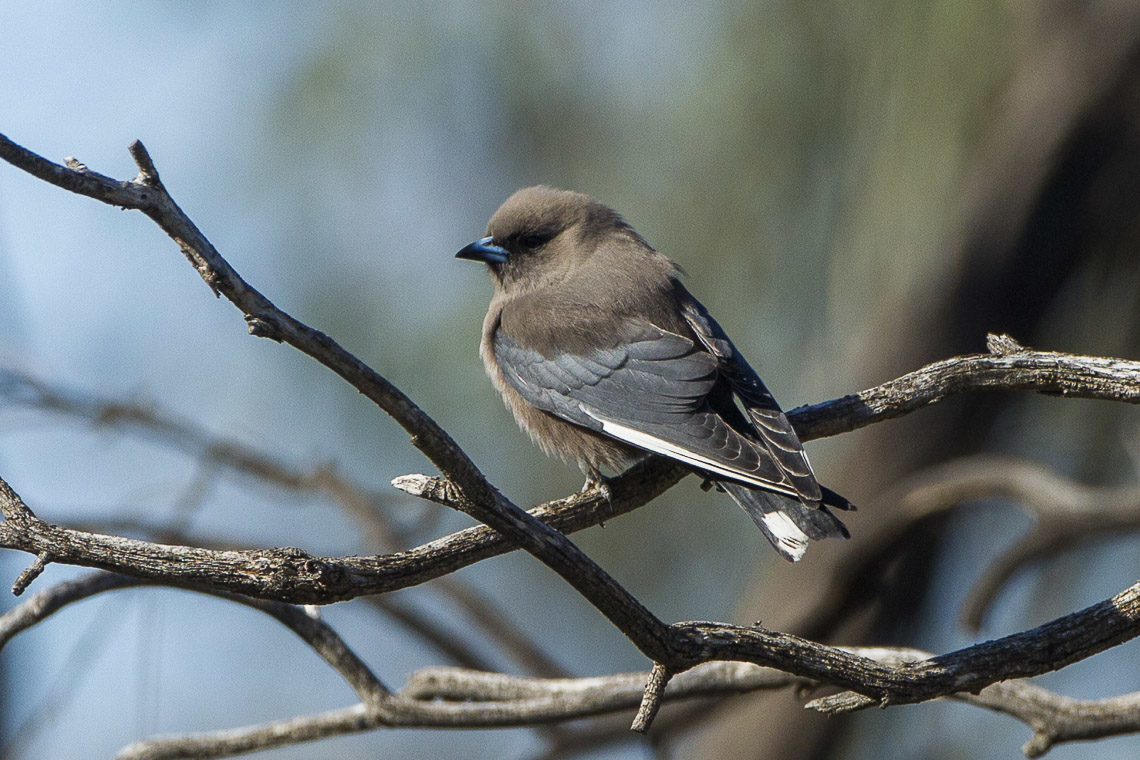 Dusky Woodswallow - Victoria_S4E2122